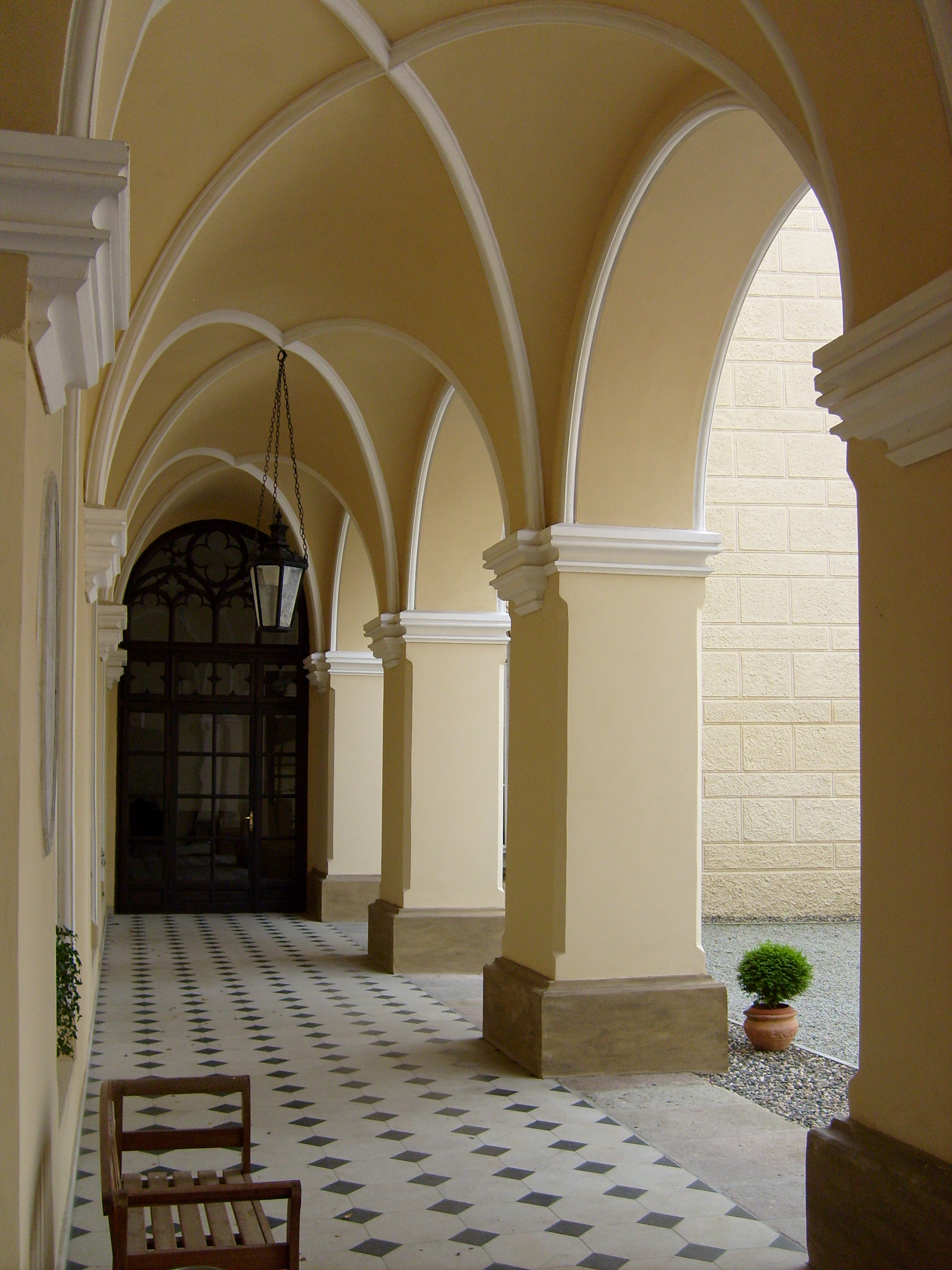 Castle, Chyše, Karlovy Vary Region, Czech Republic